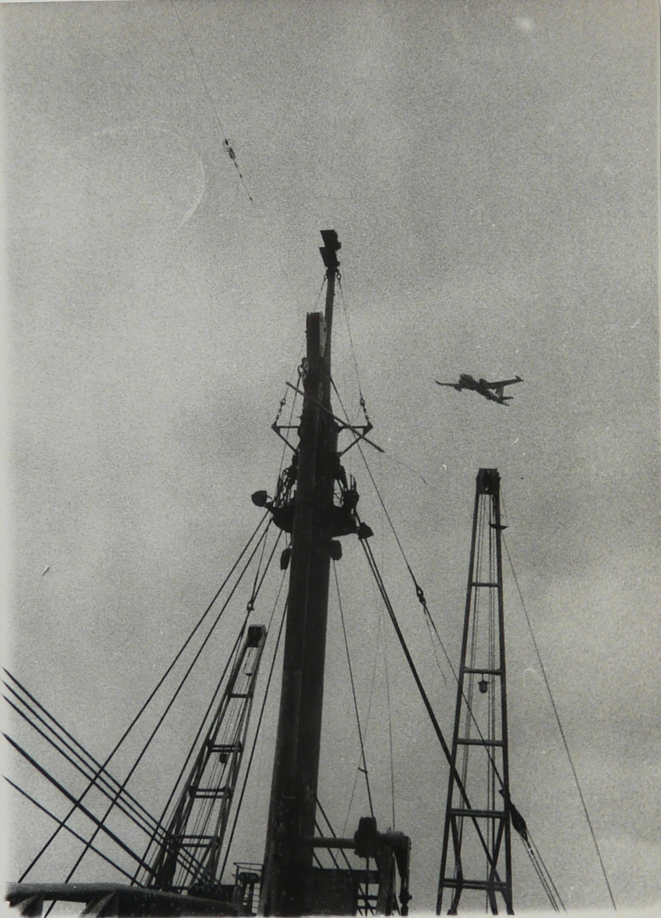 A U.S. Navy Lockheed SP-2H Neptune of Patrol Squadron 23 (VP-23) flying over the stern of Soviet freighter Metallurg Anosov off Cuba in June or July 1964.